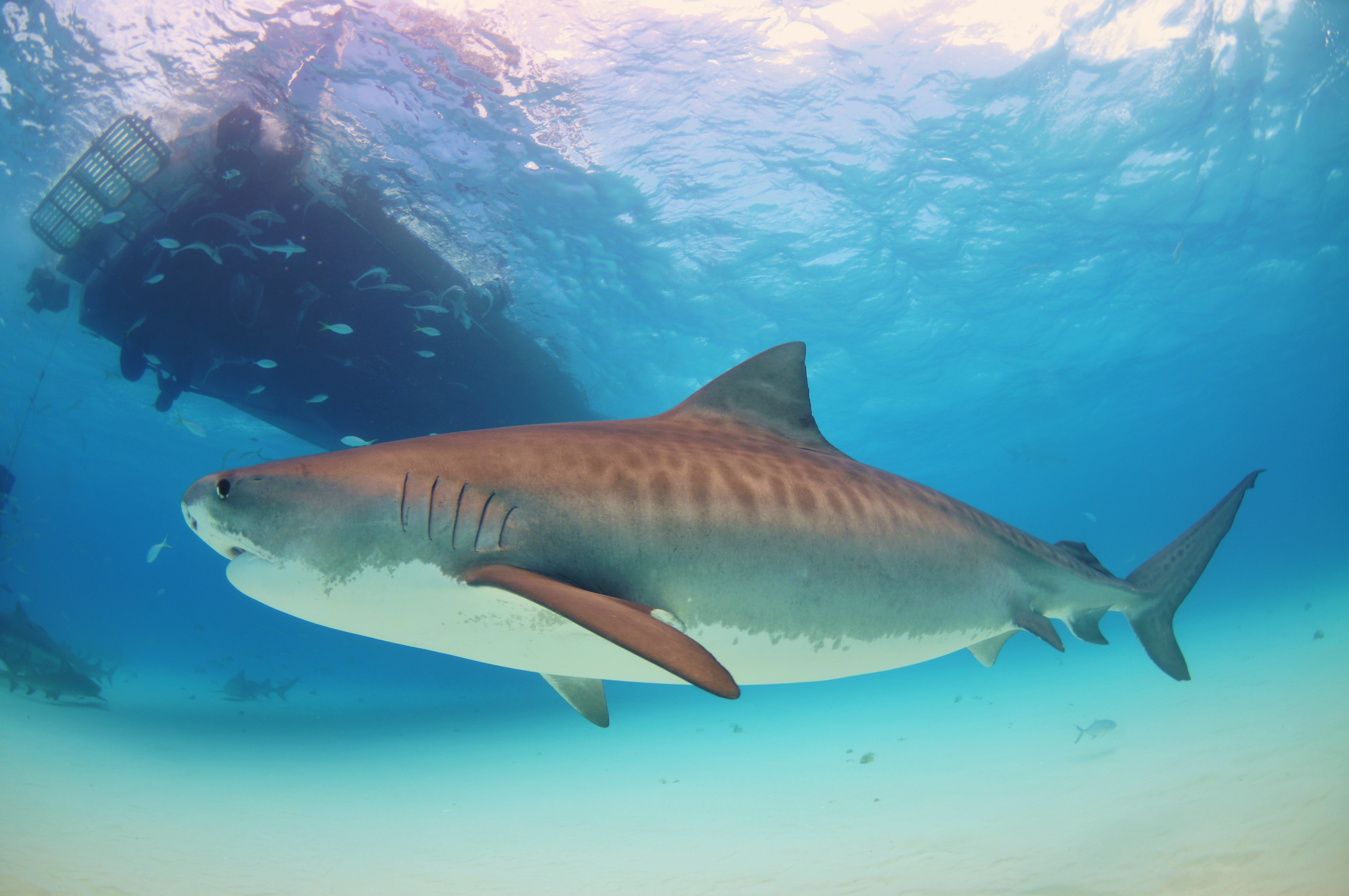 tiger shark bahamas